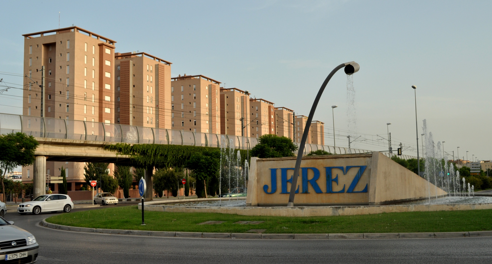 Venencia Traffic Circle, Jerez